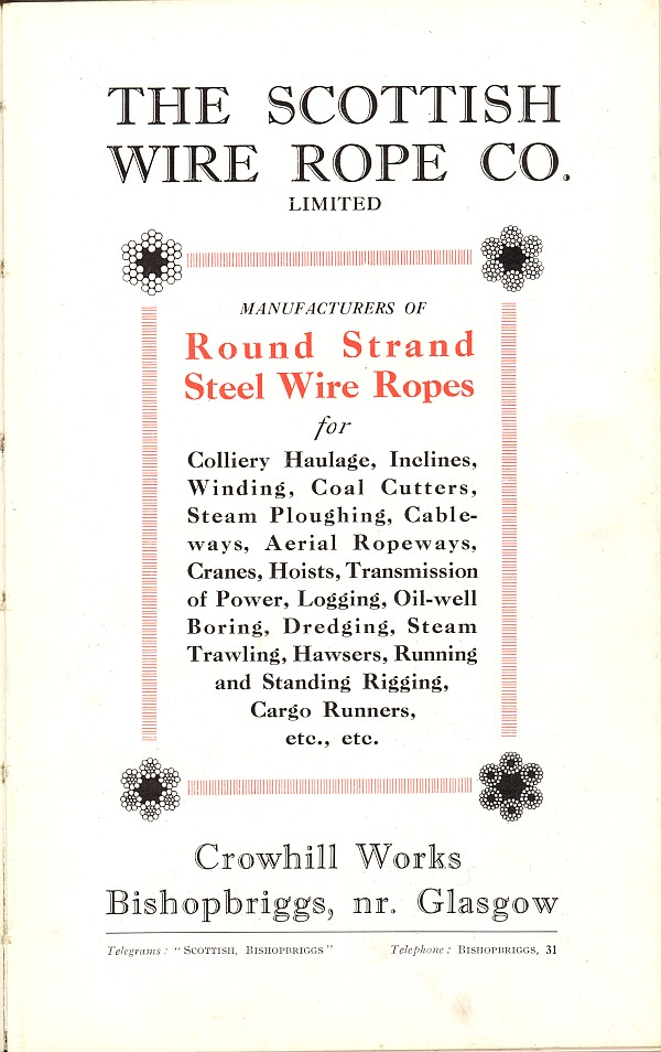 Frontispiece of a catalogue for the defunct Scottish Wire Rope Company published in the 1920s, listing the types and uses of their wire rope products.